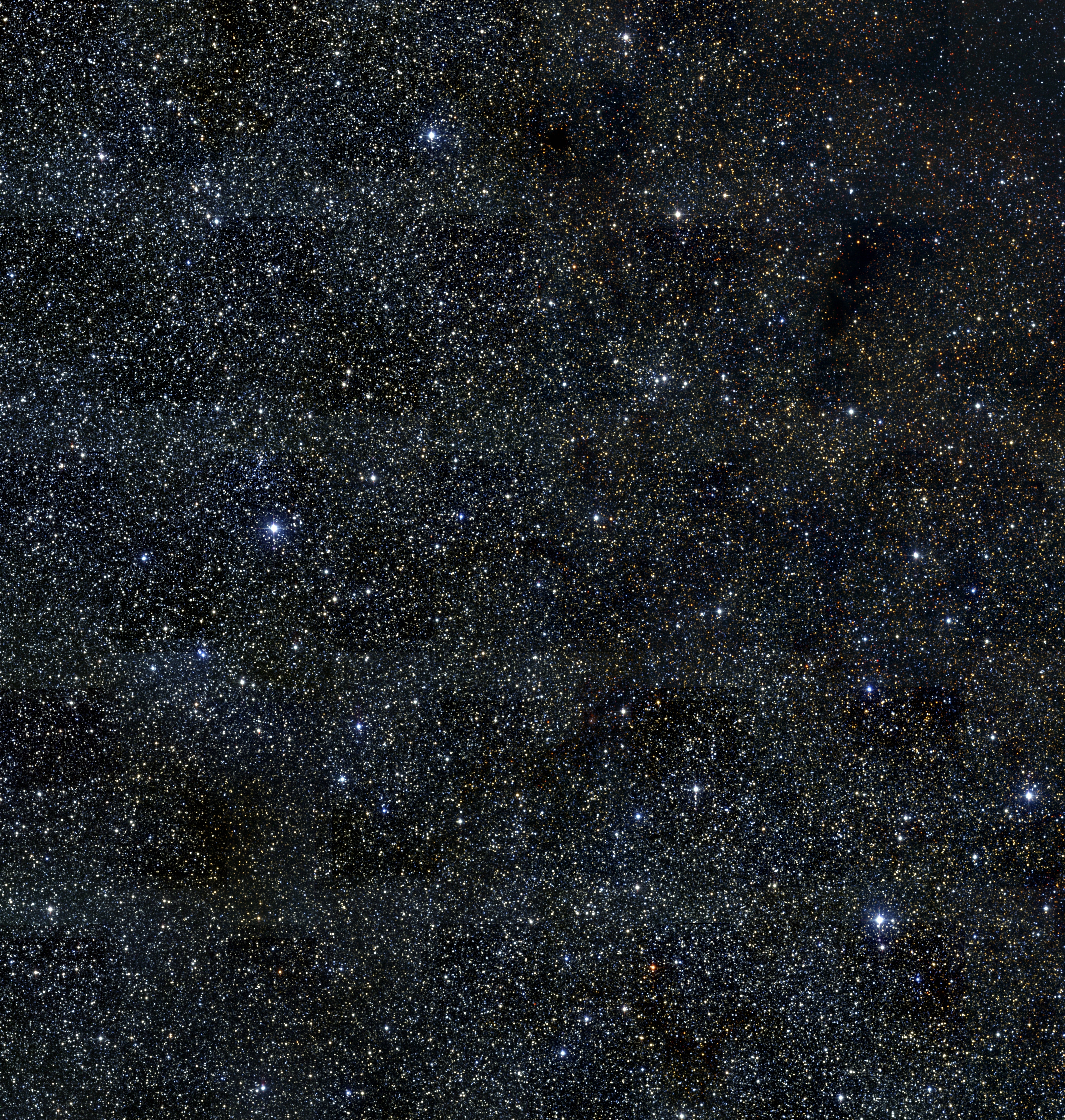 Messier 24, the Sagittarius Star Cloud